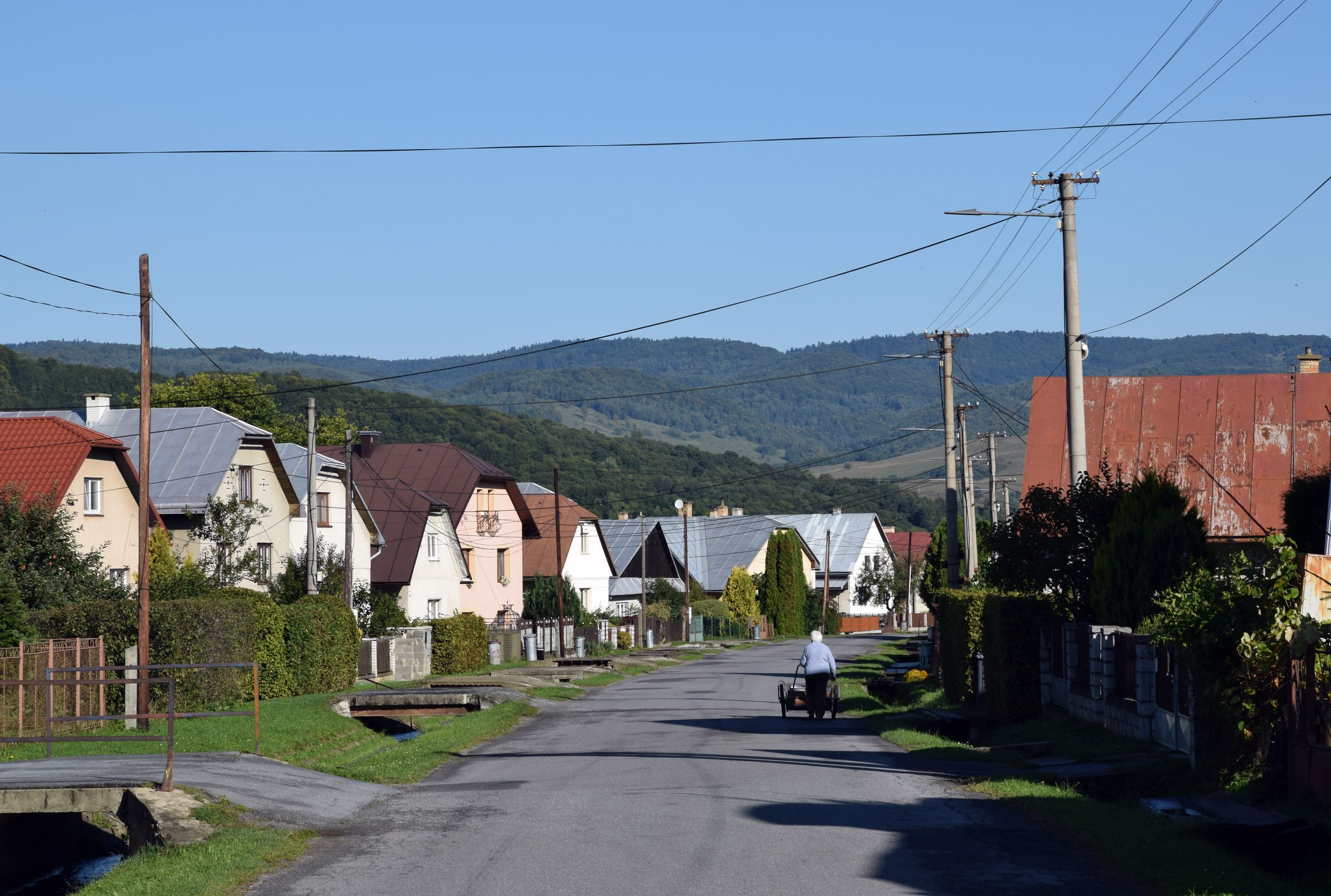 Lukov, main road